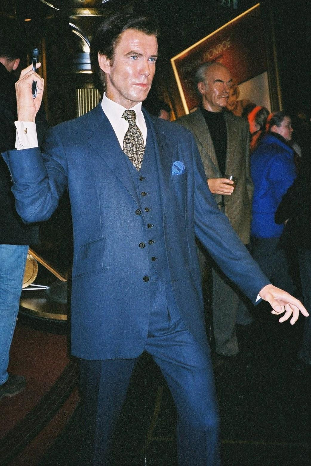 Pierce Brosnan 007. Madame Tussaud wax museum, London.